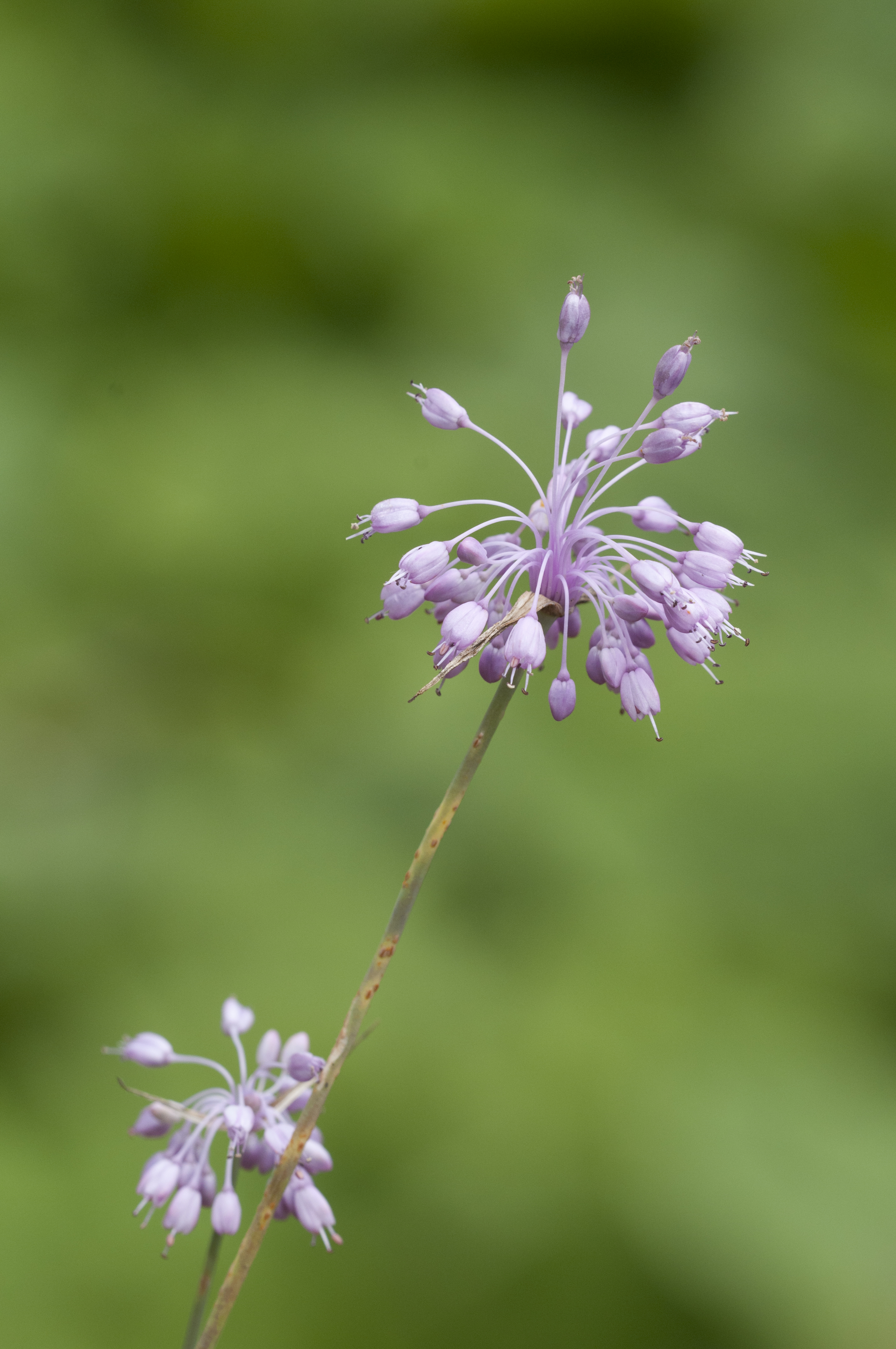 Flower of Uludag Onion (Allium olympicum), awild endemic species of Turkey. Giresun, Turkey.